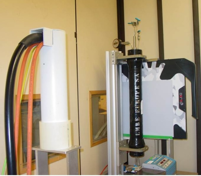 Portable X-ray @Si flat panel detector is use to analyse fluid movement in a sand core under high pressure